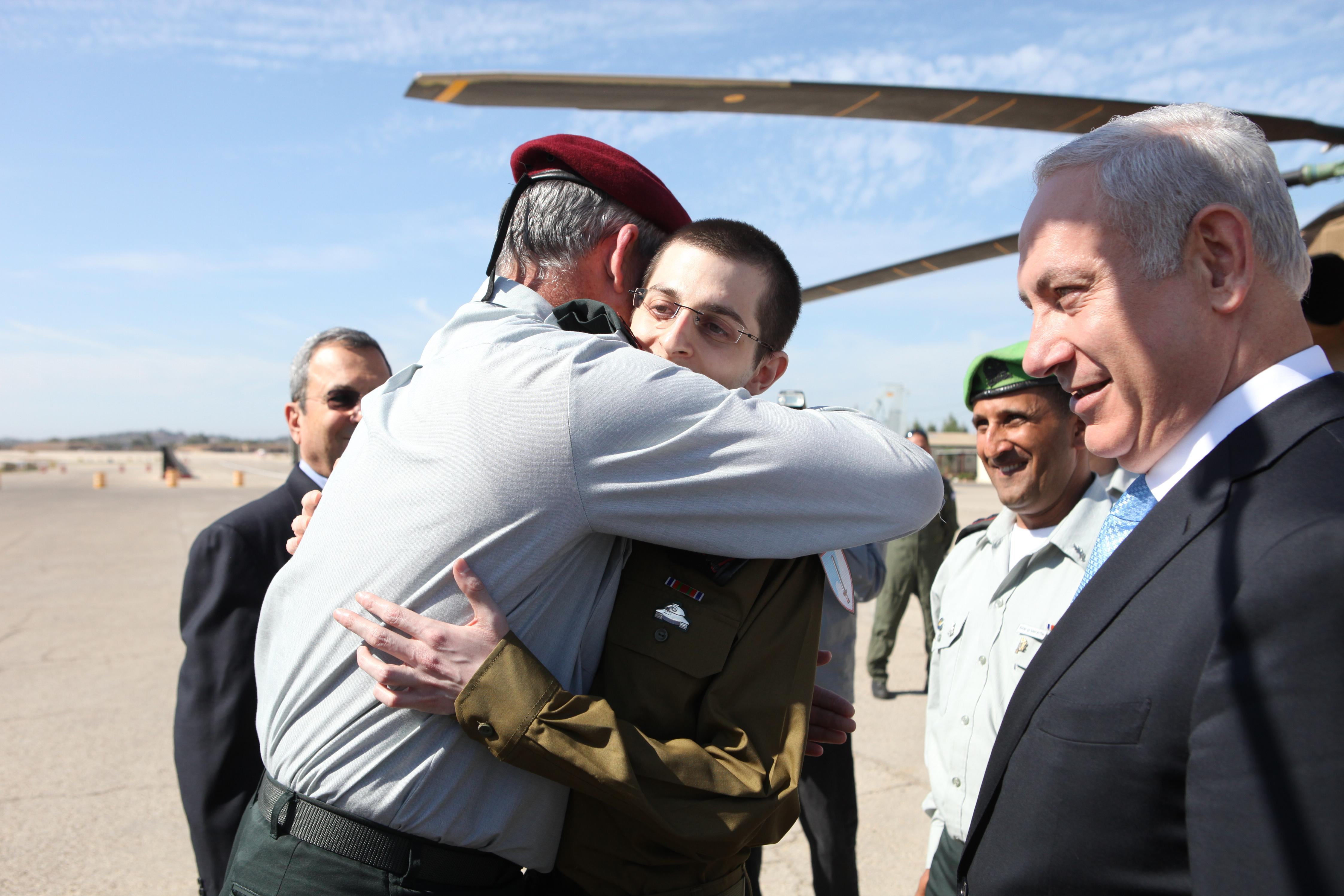 Chief of Staff, LTG Benny Gantz embracing Gilad Shalit upon his return from captivity